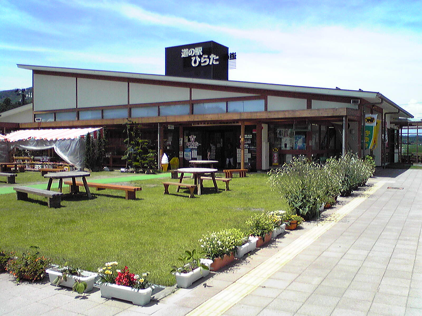 Farm products sale place, Hirata, Roadside Station, Fukushima, Japan.